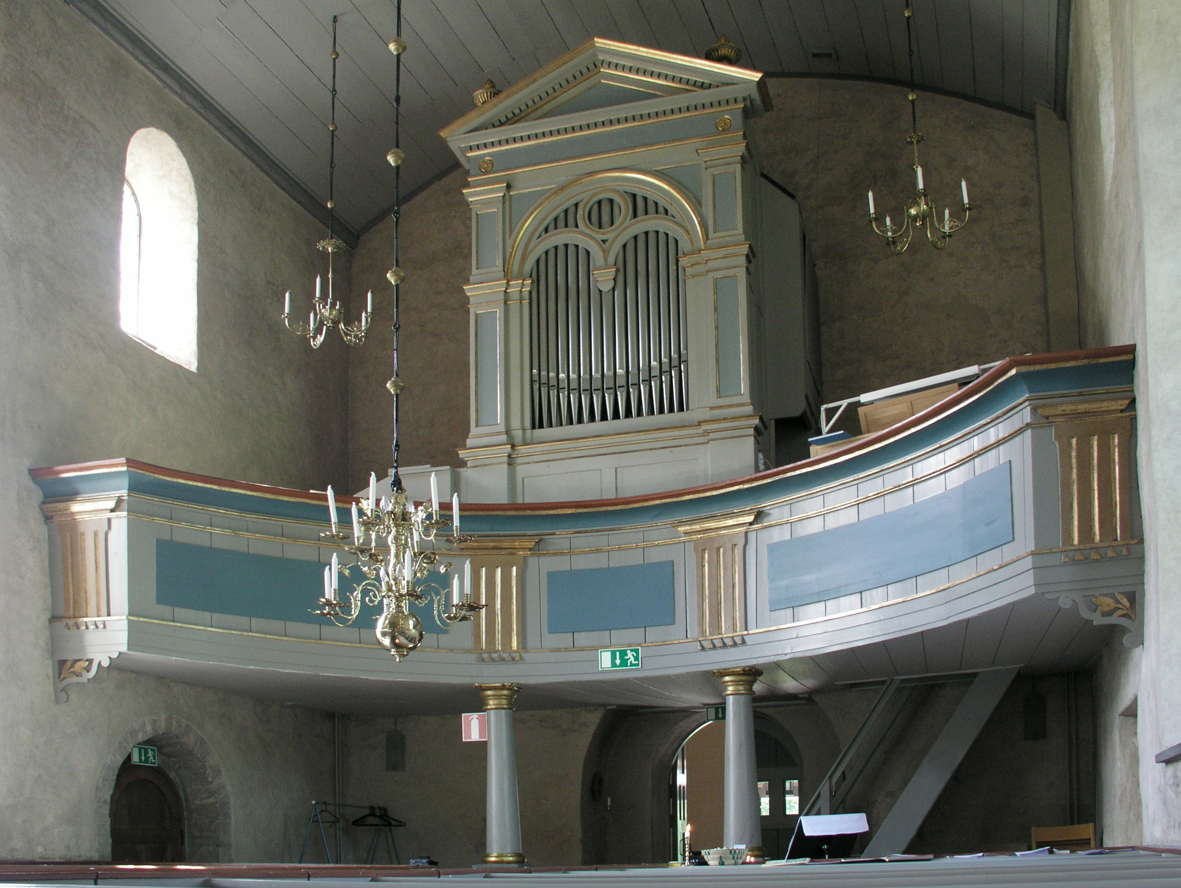 Resmo kyrka/church, Mörbylånga. Organ. The photo was taken by Håkan Svensson (Xauxa) the 2nd of August 2005.